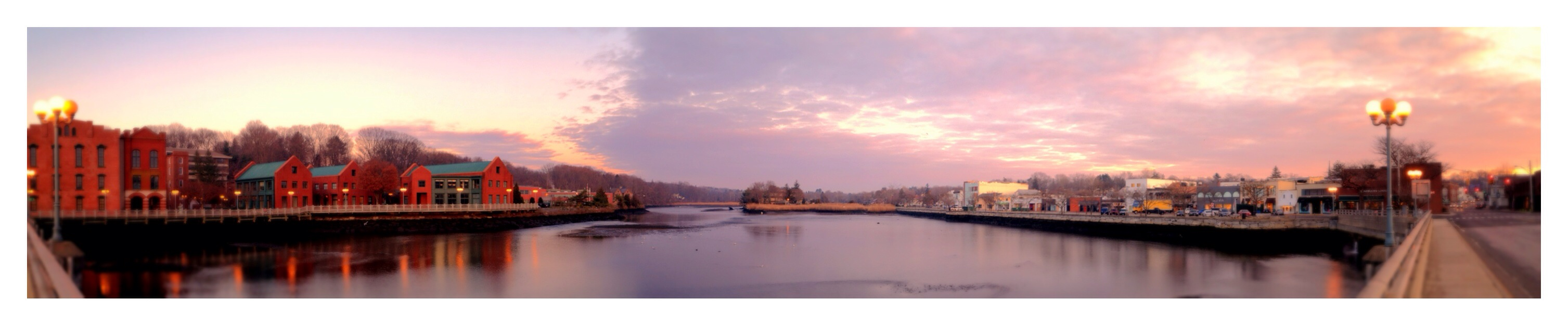 Post Road Bridge, Westport, CT